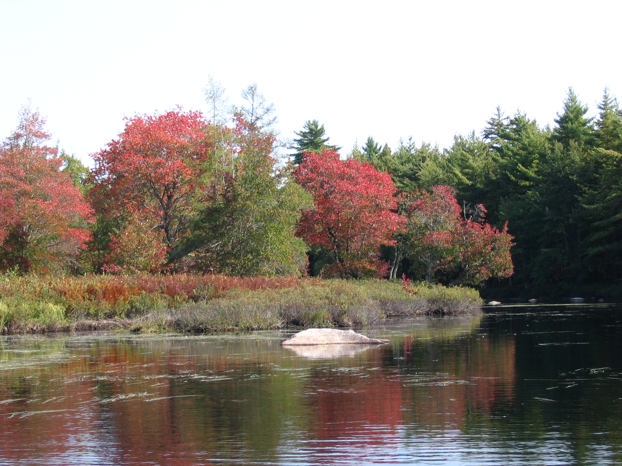 Still Brook all aflame. (Photo taken by Davis Bennett)